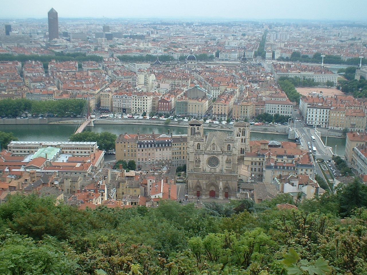 Lyon, view from Fourviere